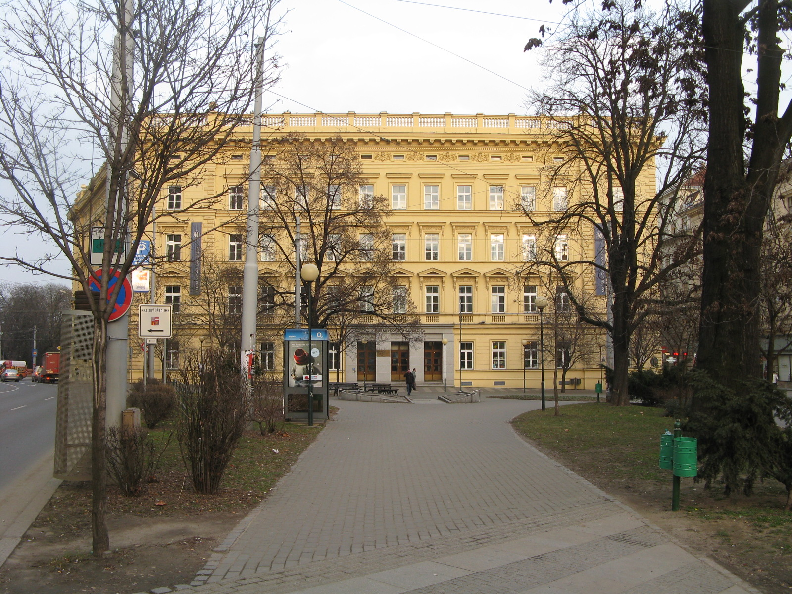 Rectorate of the Masaryk University, Brno